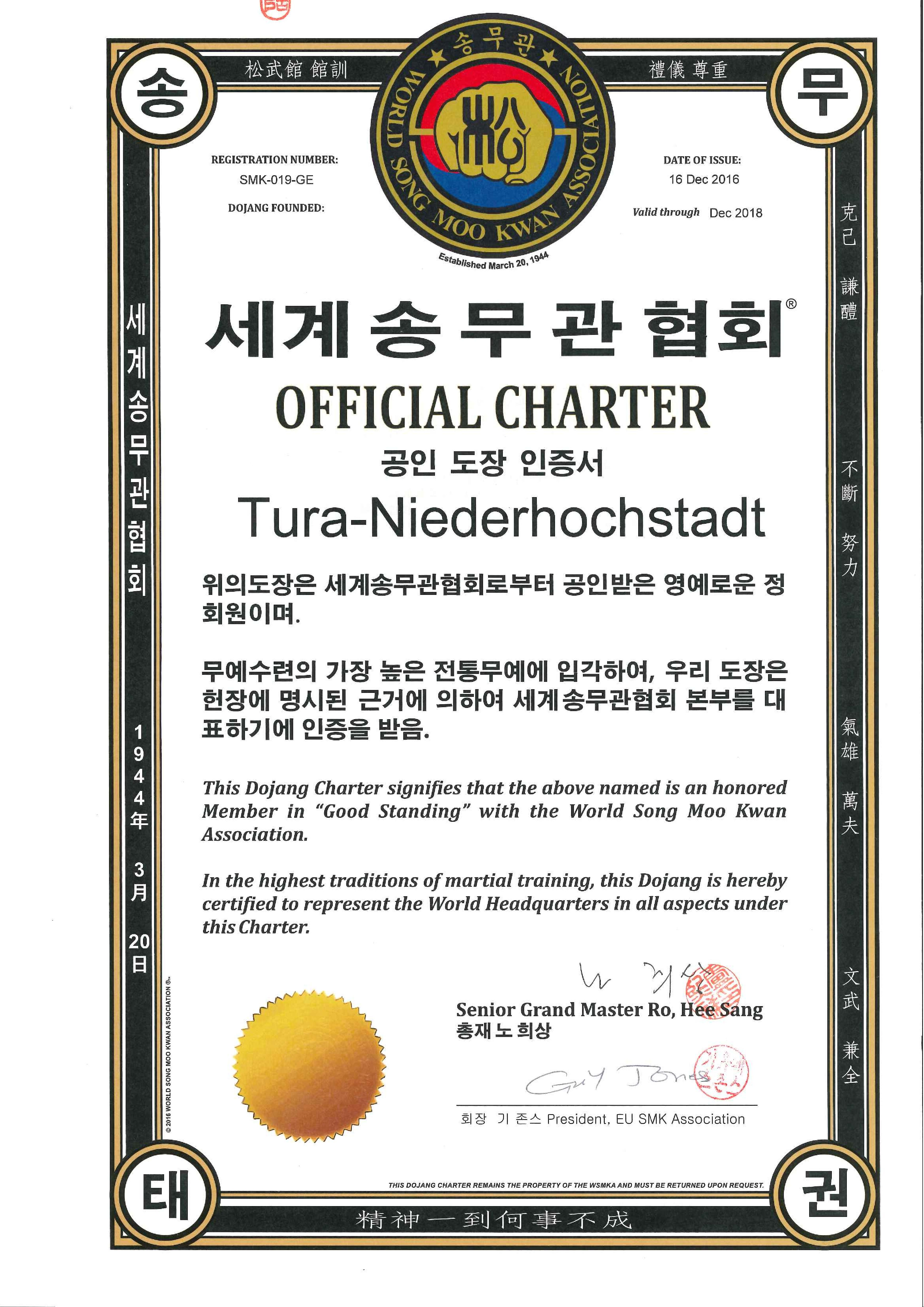 Certificate of Song-Moo-Kwan Association for Tura Niederhoechststadt Taekwondo